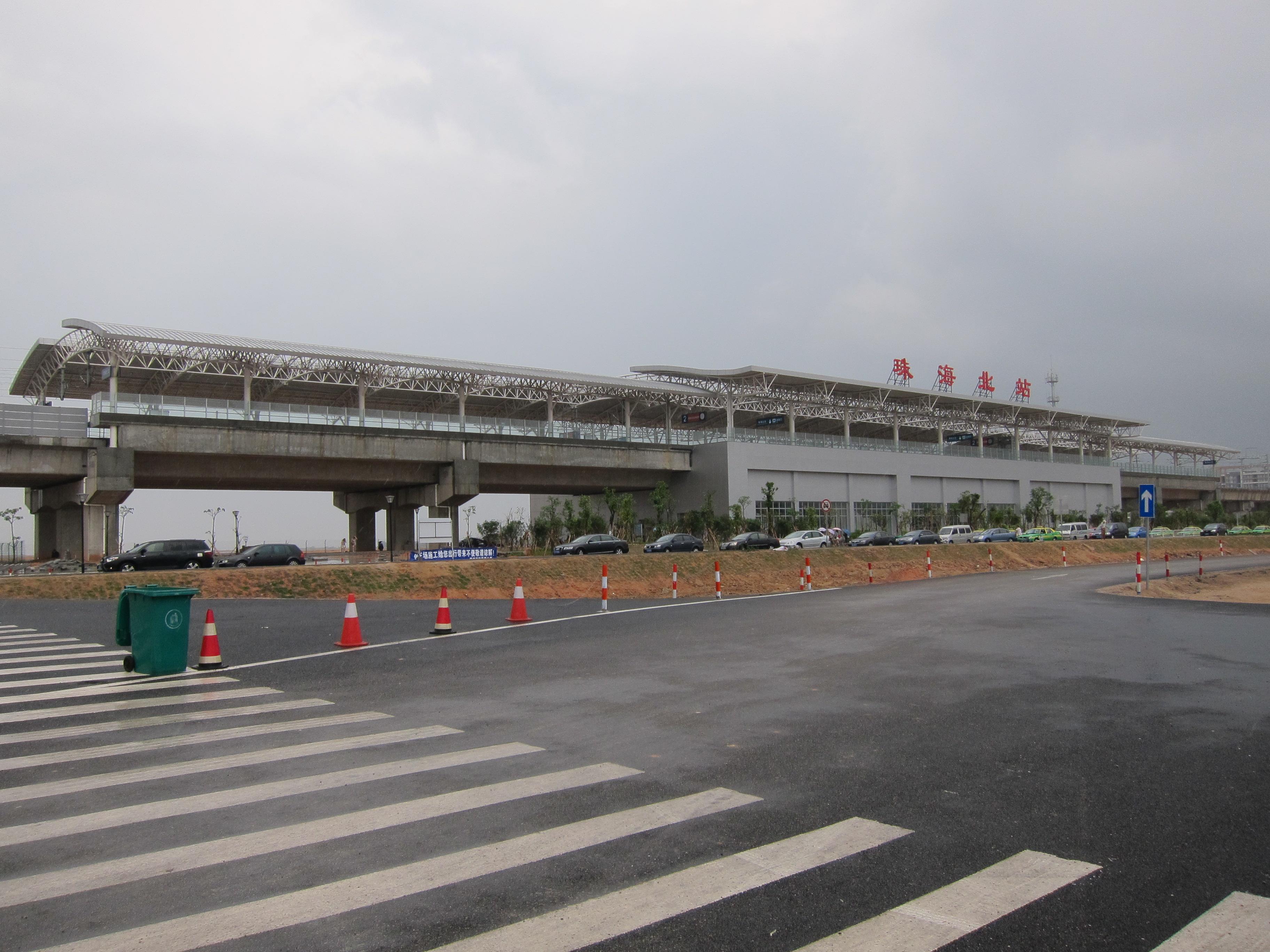 Exterior of Zhuhai North Railway Station.